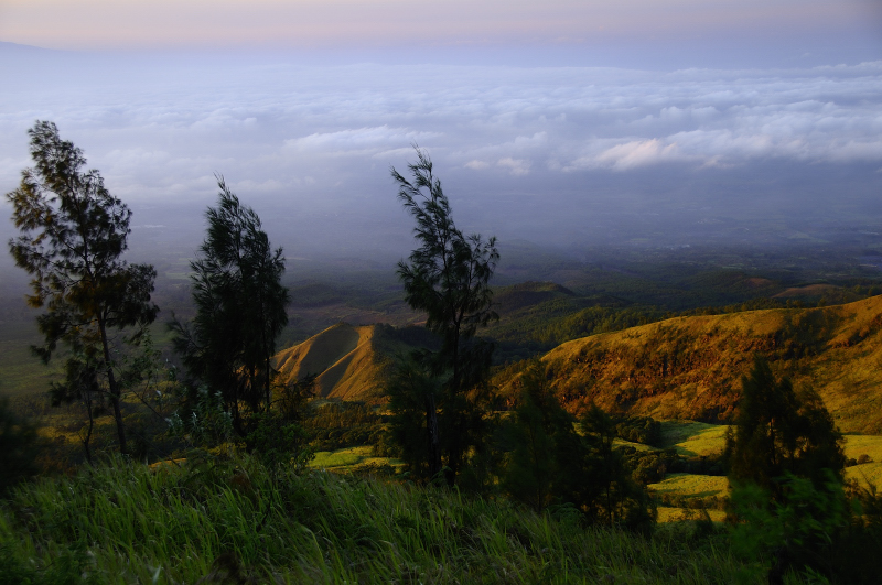 View of a slope of mount Arjuna in Sumberawan area